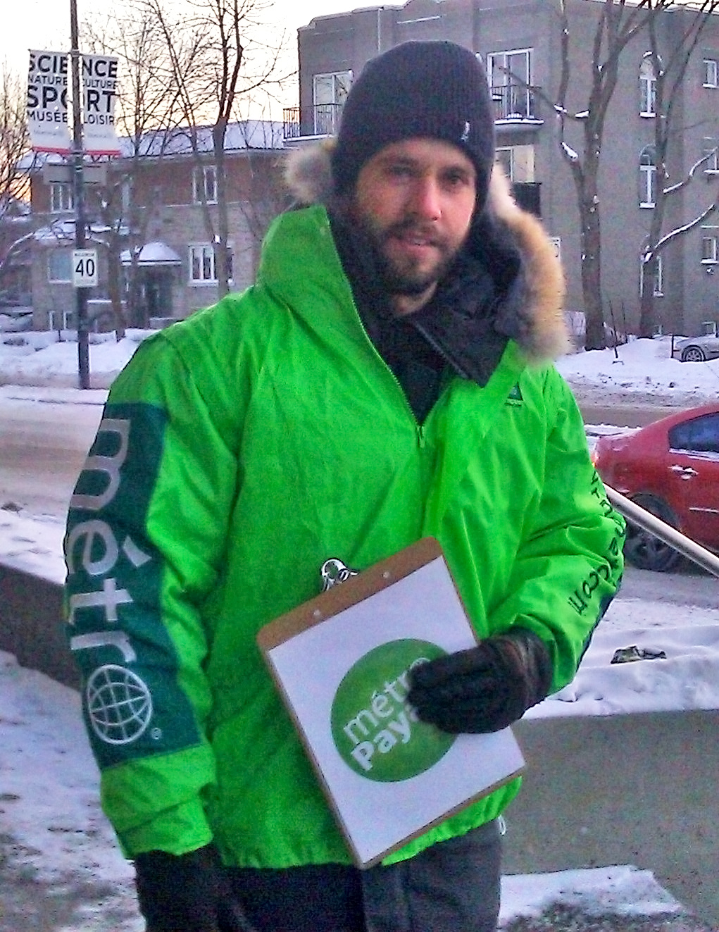 Alexandre Barrette photographed in Montreal, Quebec, Canada.